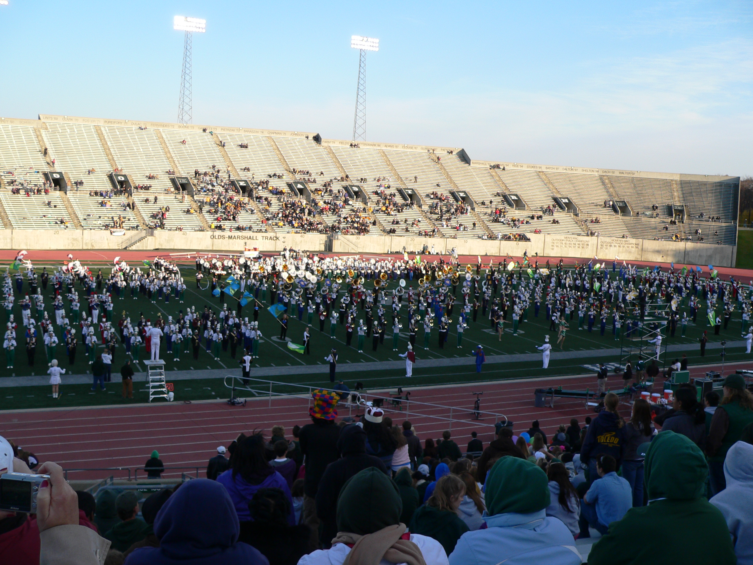 EMU Marching Band and twelve high school marching bands performing the "Band Day" halftime show at the EMU versus Toledo football game. It's hard to tell because of the angle, but they're spelling out "EMU" in block letters.